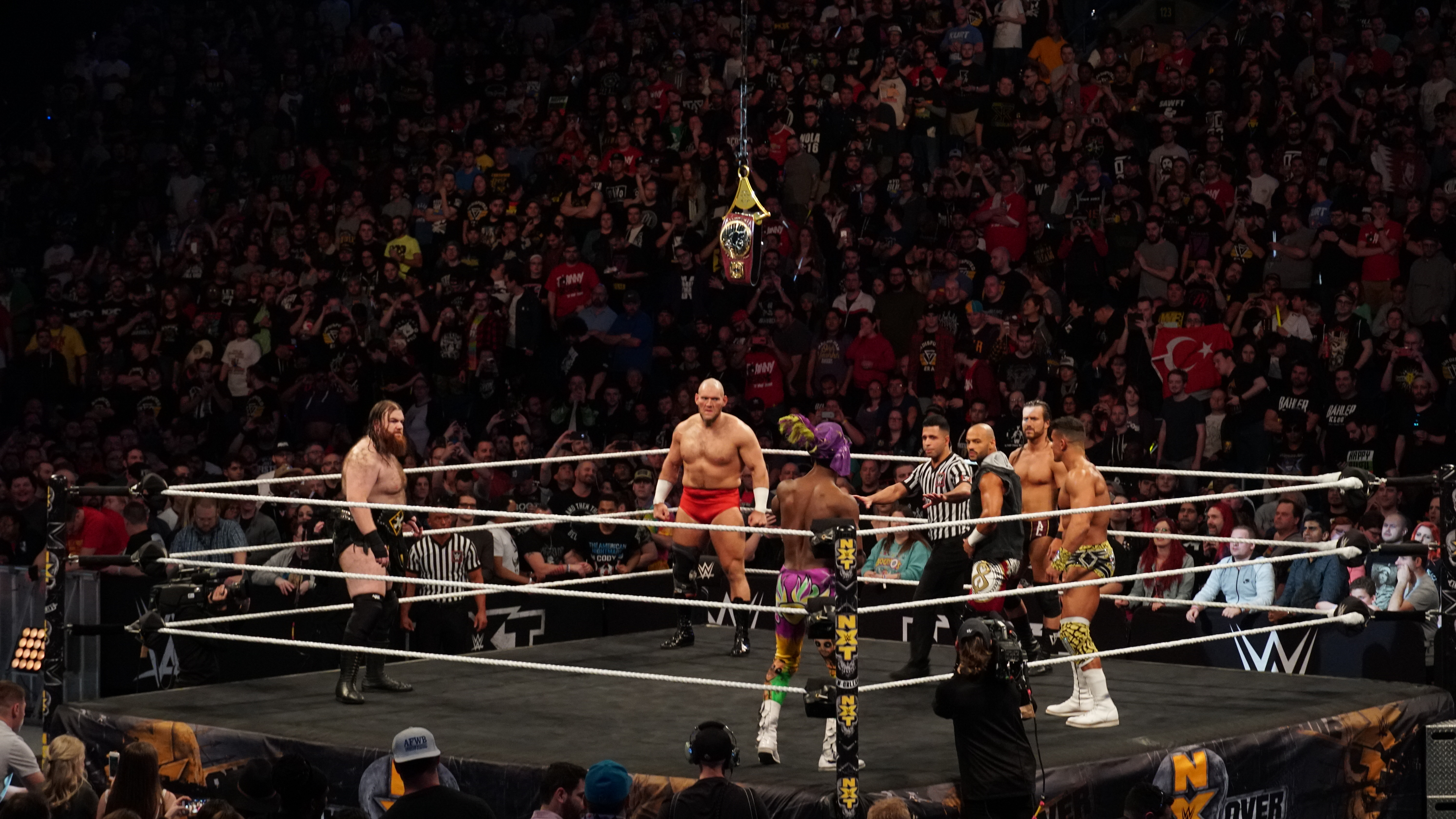 The competitors in the ring for the six-man ladder match at NXT TakeOver: New Orleans.